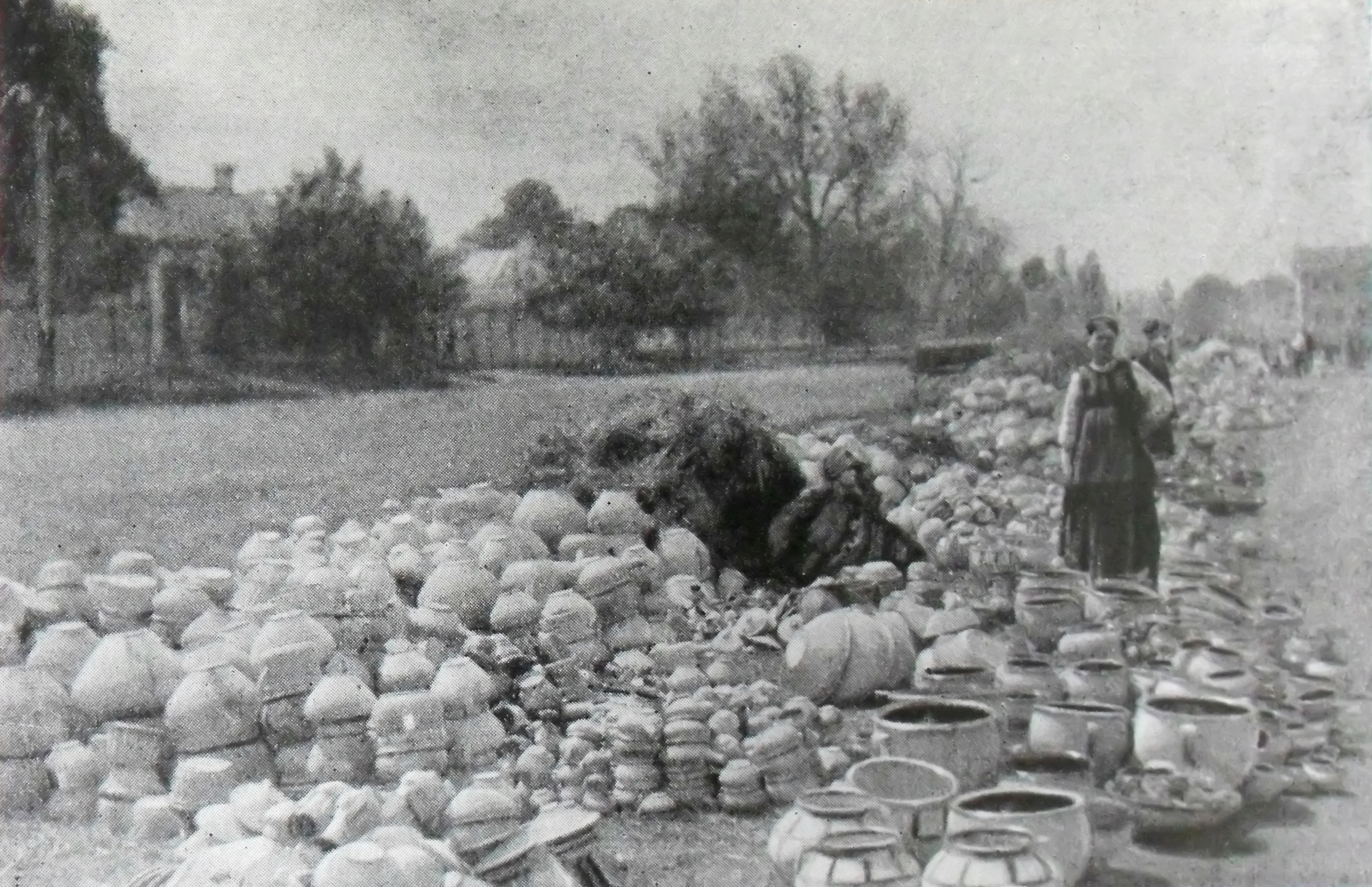 A potter's row in the Opishnya's market, the end of the XIX century.